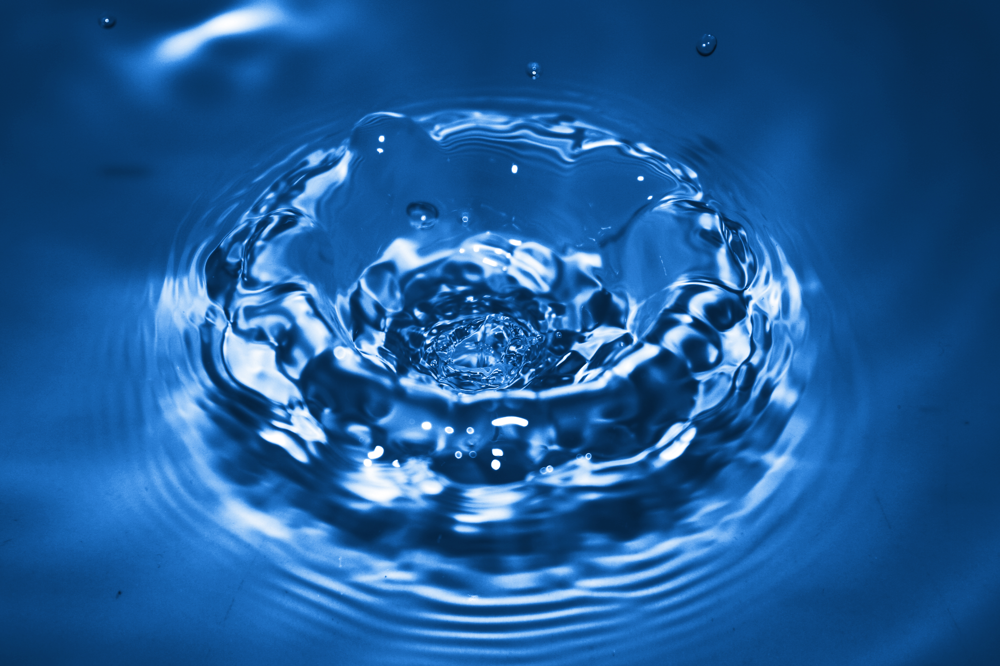 water droplet impact on water surface